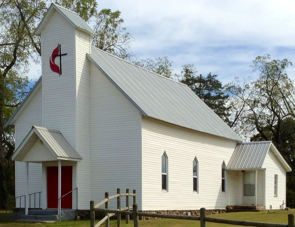 Camp Methodist Church, Highway 9, approximately 6 miles east of Salem Camp